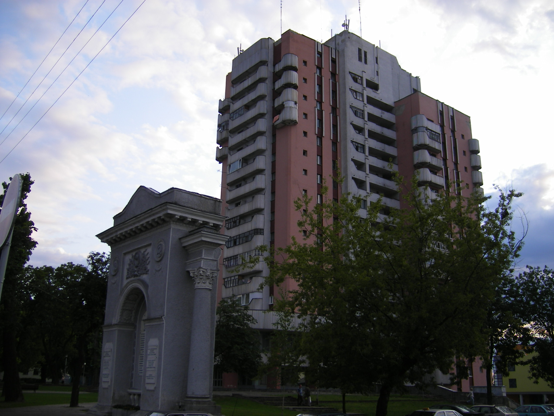 Memorial Arch in Pervomayskaya Street